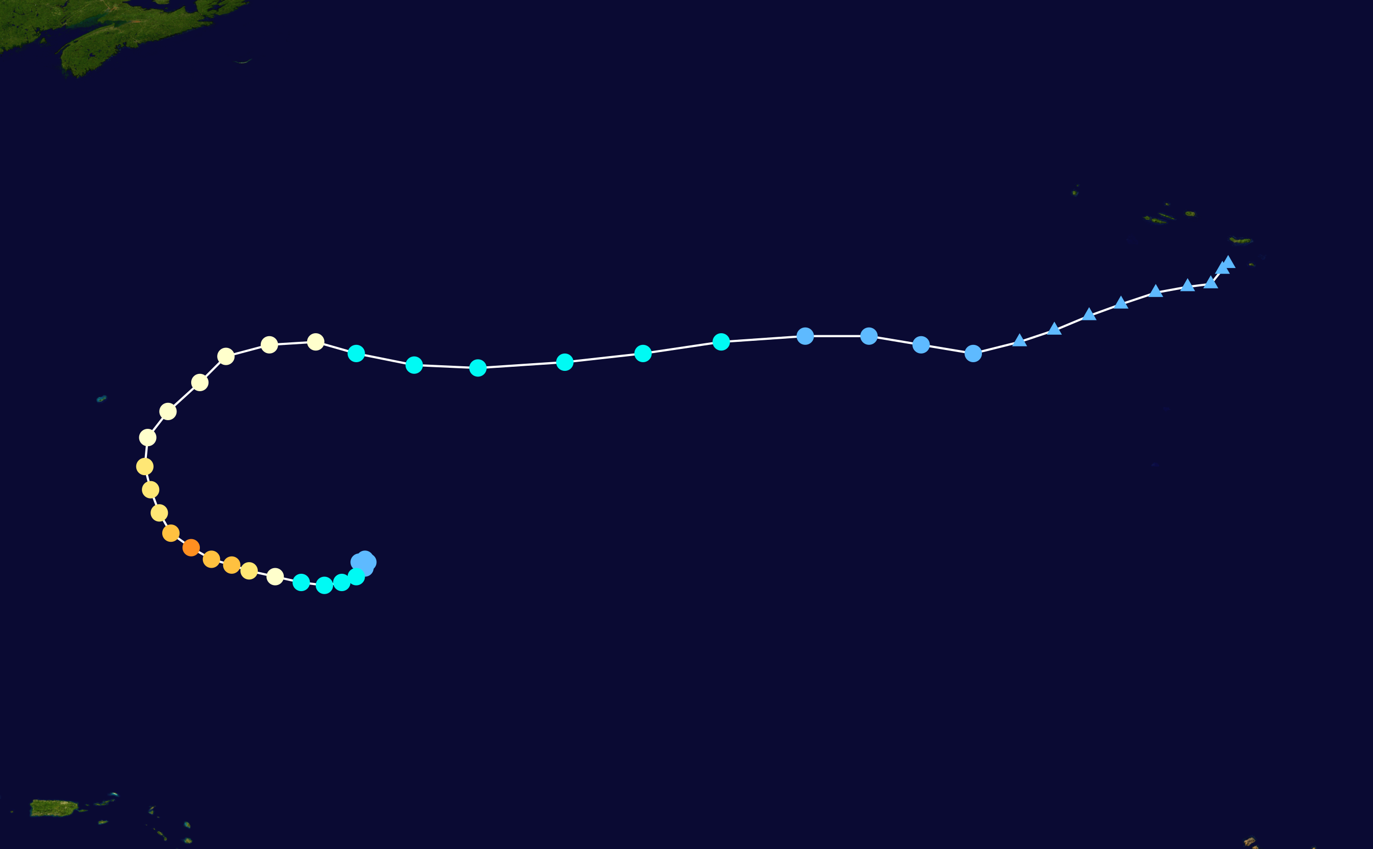 Track map of Hurricane Claudette of the 1991 Atlantic hurricane season. The points show the location of the storm at 6-hour intervals. The colour represents the storm's maximum sustained wind speeds as classified in the Saffir–Simpson scale (see below), and the shape of the data points represent the nature of the storm, according to the legend below. Saffir–Simpson scale Tropical depression≤38 mph≤62 km/h Category 3111–129 mph178–208 km/h Tropical storm39–73 mph63–118 km/h Category 4130–156 mph209–251 km/h Category 174–95 mph119–153 km/h Category 5≥157 mph≥252 km/h Category 296–110 mph154–177 km/h Unknown Storm type Tropical cyclone Subtropical cyclone Extratropical cyclone / Remnant low / Tropical disturbance / Monsoon depression